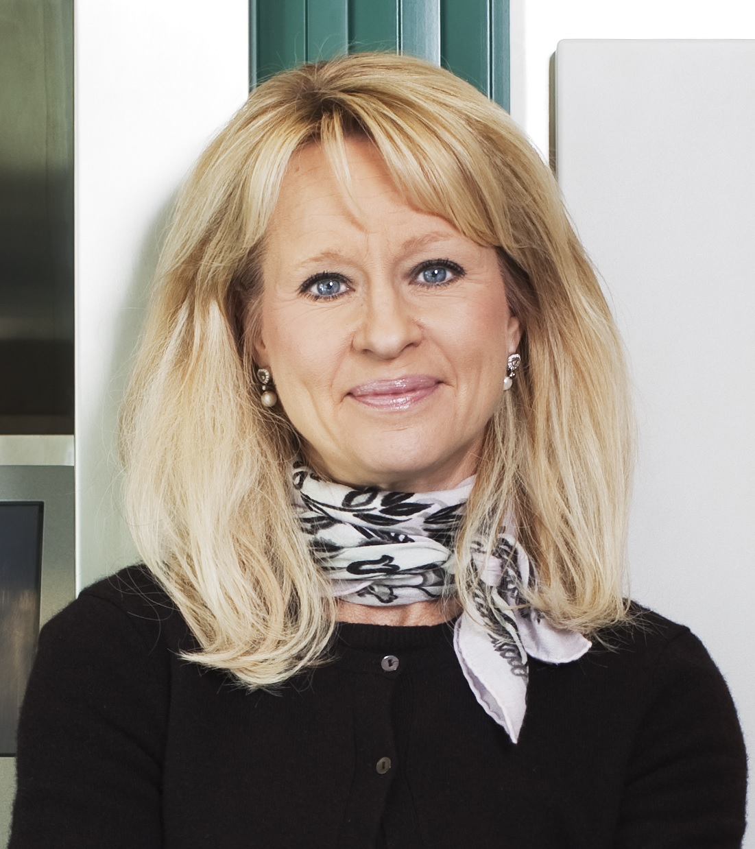 The CEO of SEB, Annika Falkengren.